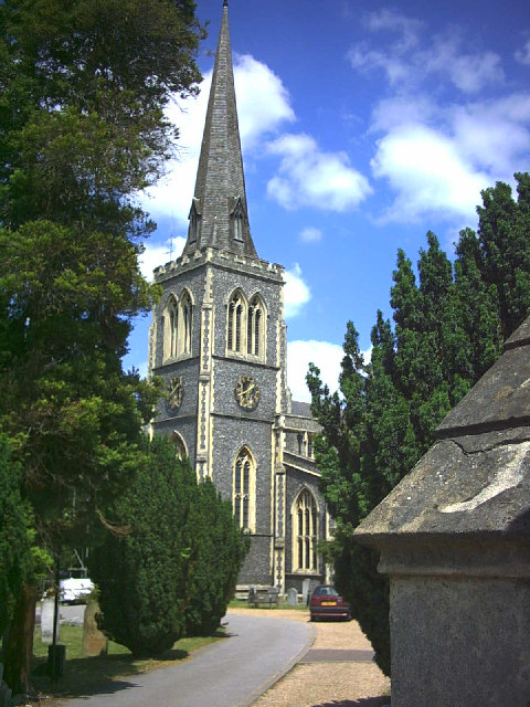 West tower and spire of St Mary's parish church, St Mary's Road, Wimbledon, London, seen from the southwest